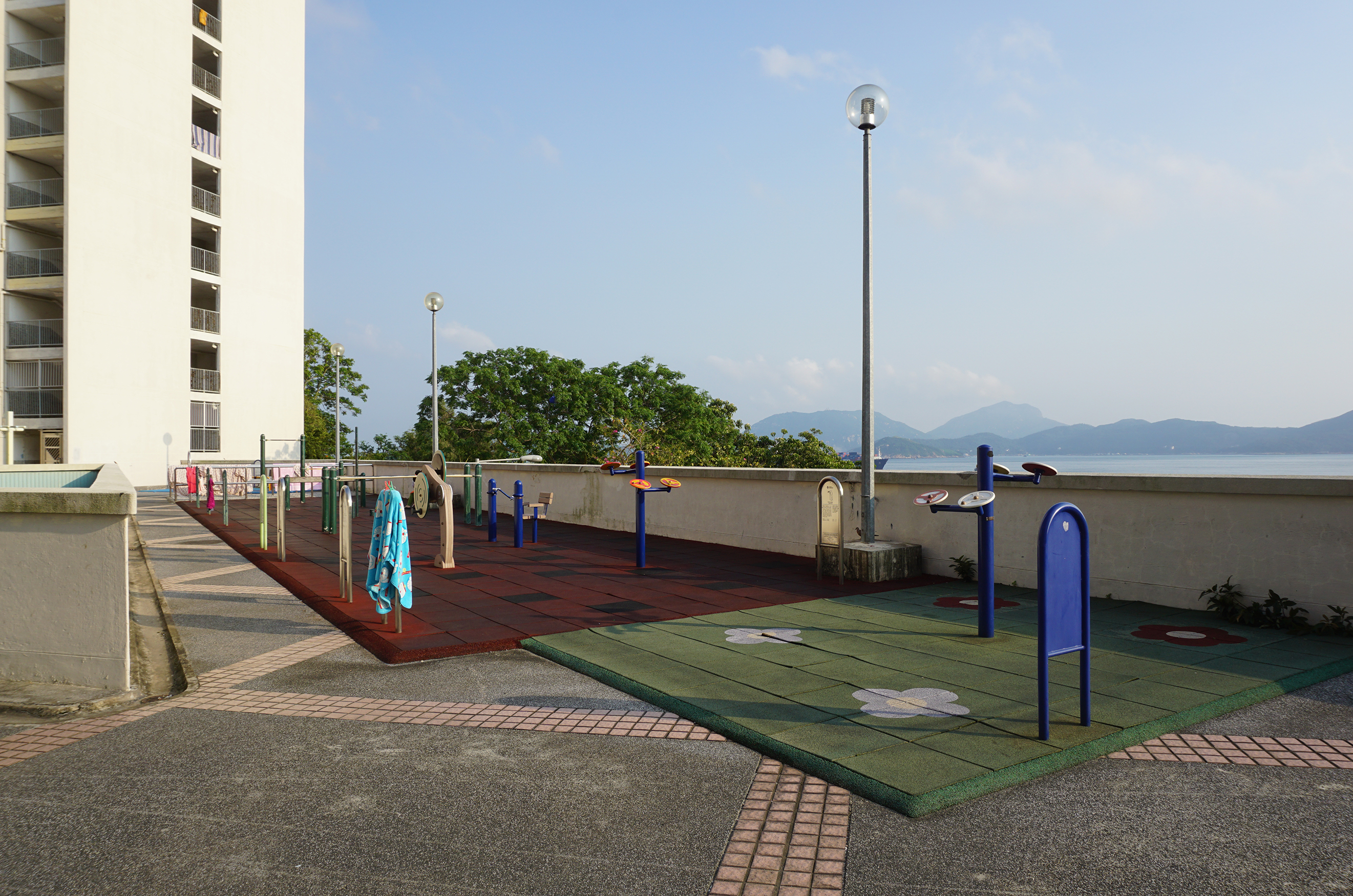 Wah Fu (I) Estate in Pok Fu Lam, Hong Kong.